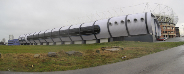 Sunderland Aquatic Centre, near to Sunderland, Great Britain.